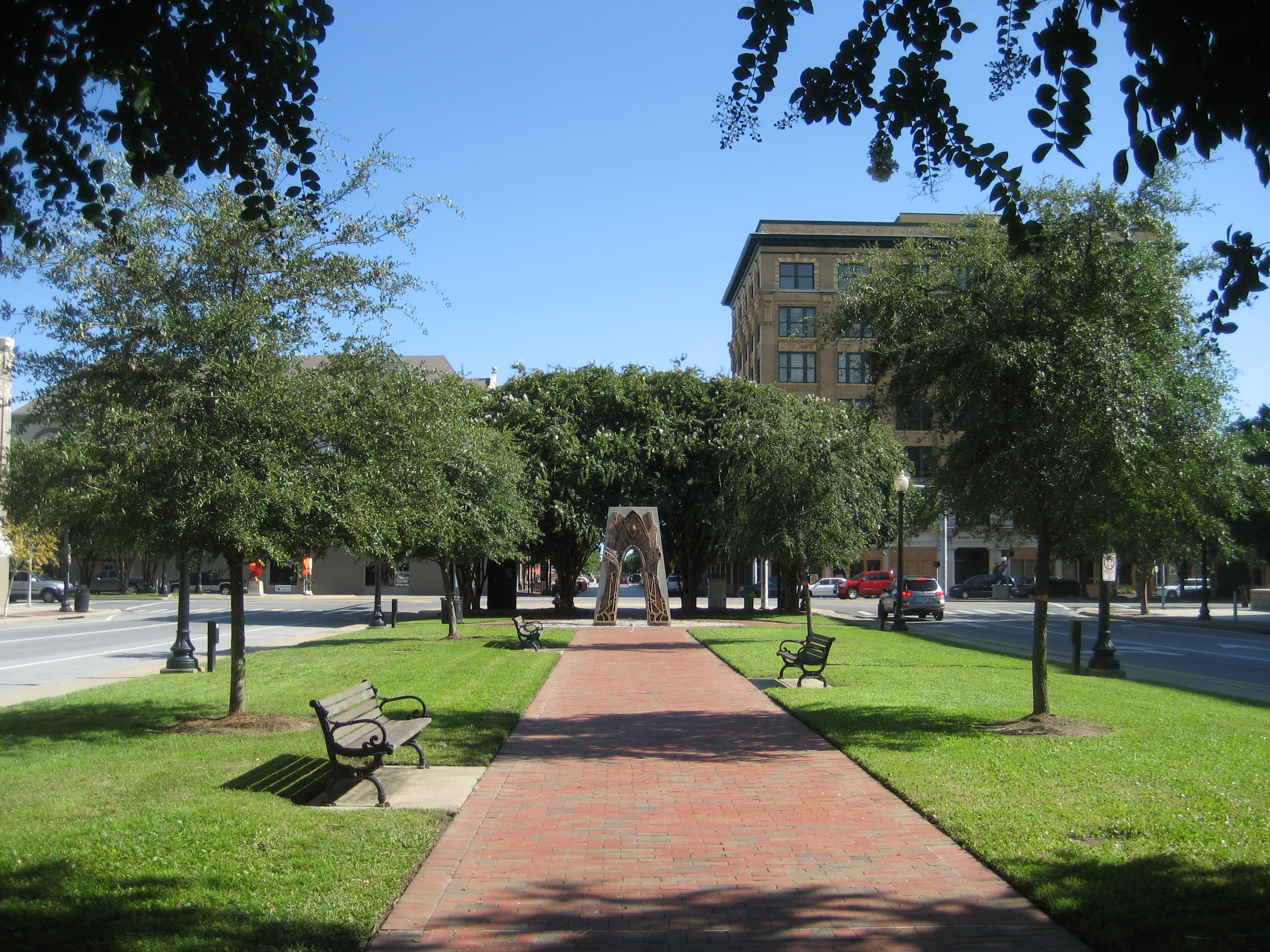 Linear park on Palafox Street, downtown Pensacola, Florida